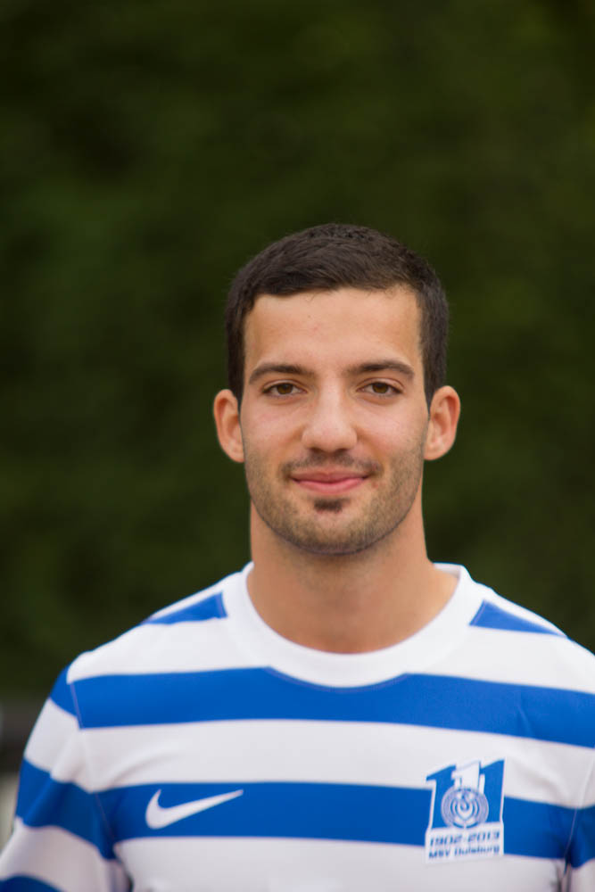 Greek football player Athanasios Tsourakis, MSV Duisburg